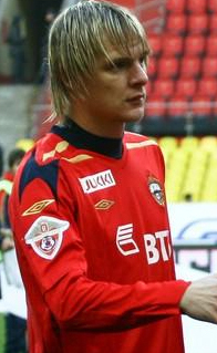 Miloš Krasić, Serbian footballer.